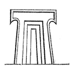 Etruscan necropolis door